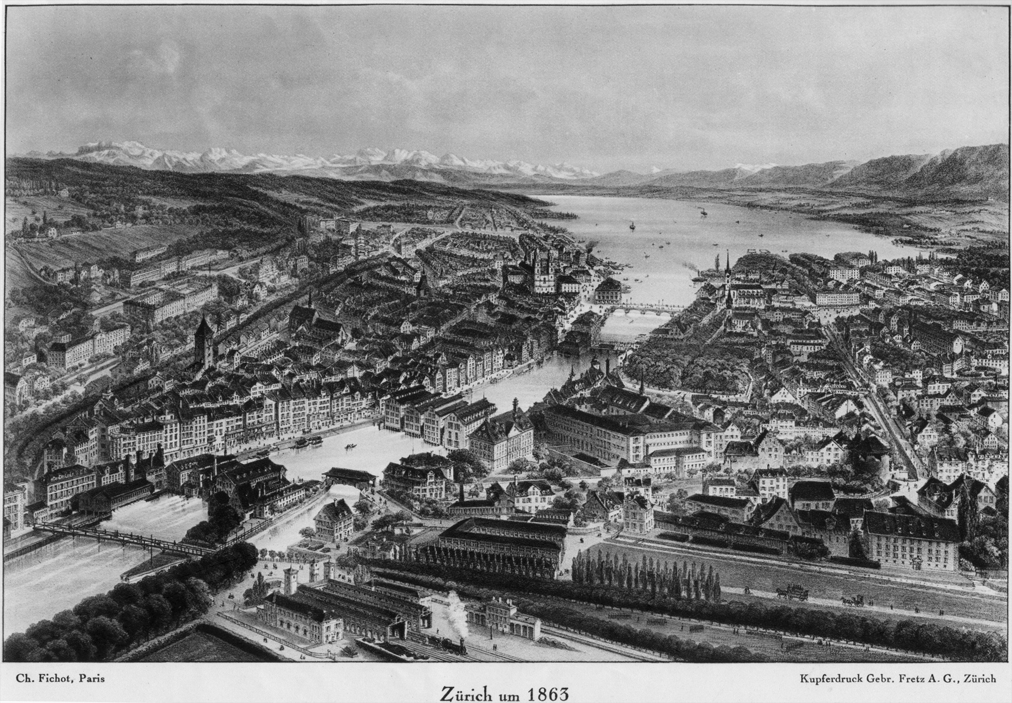 View of the city of Zürich in Switzerland, 1863